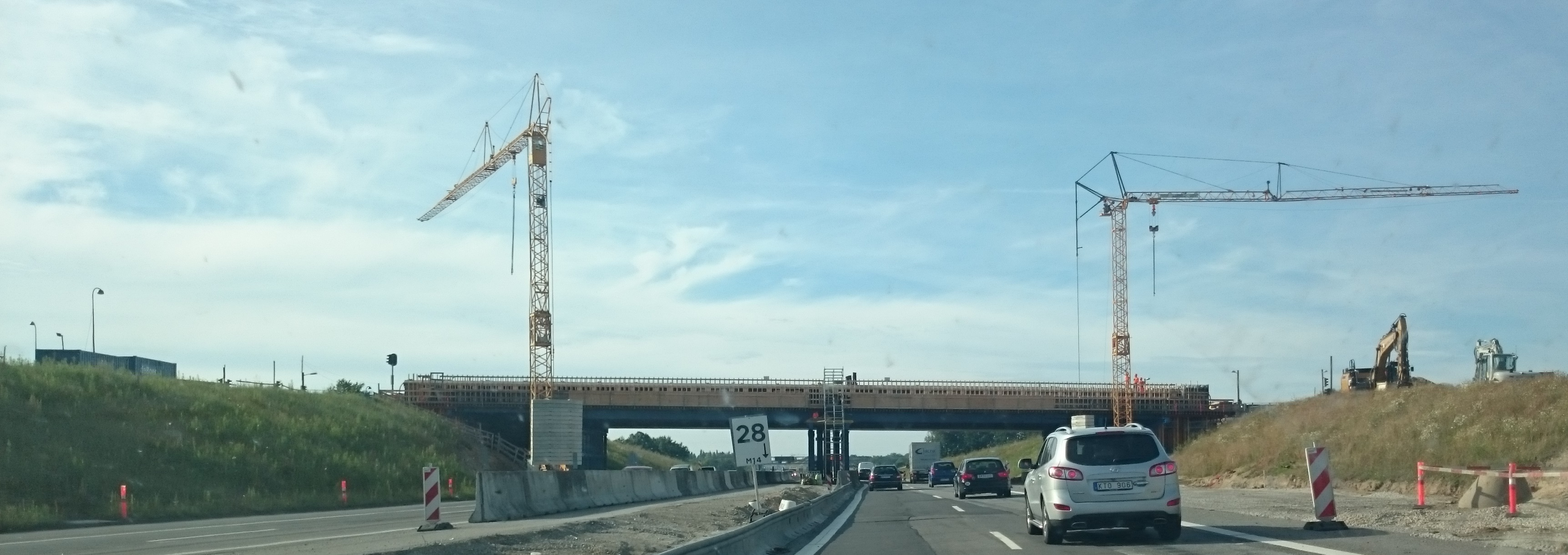 Bridge over Helsingørmotorvejen in Denmar. Work in progress after the former attempt to build one resulted in the structure to collapse.